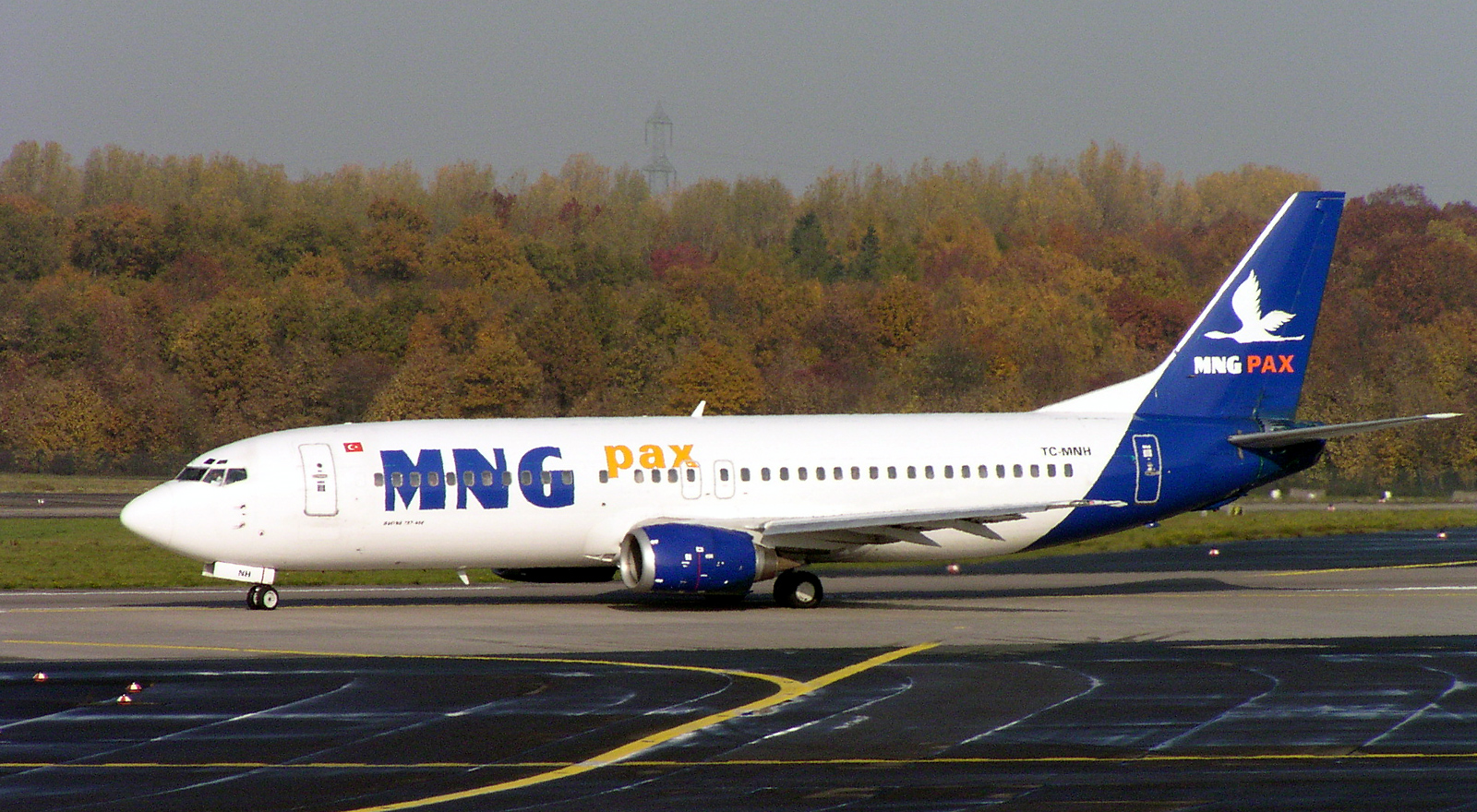 Description: MNG Airlines Boeing 737-400 in Düsseldorf 4. November 2003. Photographer: Arcturus Licence: GFDL + cc-by-sa-2.0-de